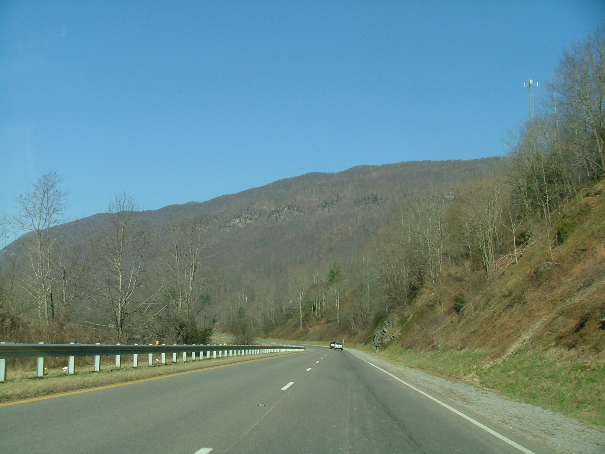 Taken by me on Dec. 18, 2006